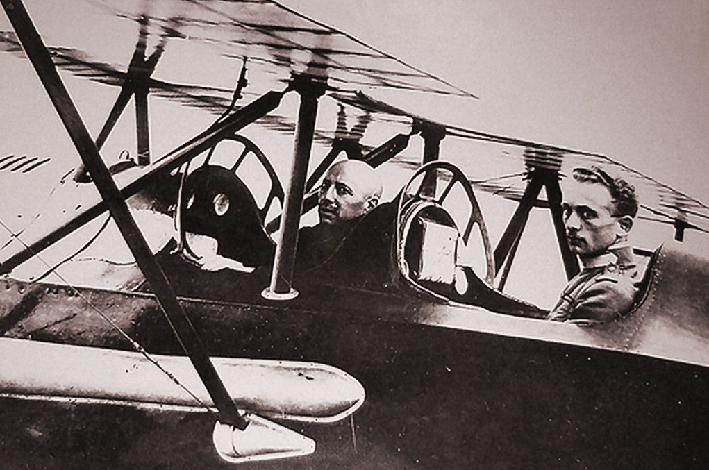 Gabriele D'Annunzio on the front seat of the S.V.A. flown by Captain Natale Palli ready for the raid on Wien